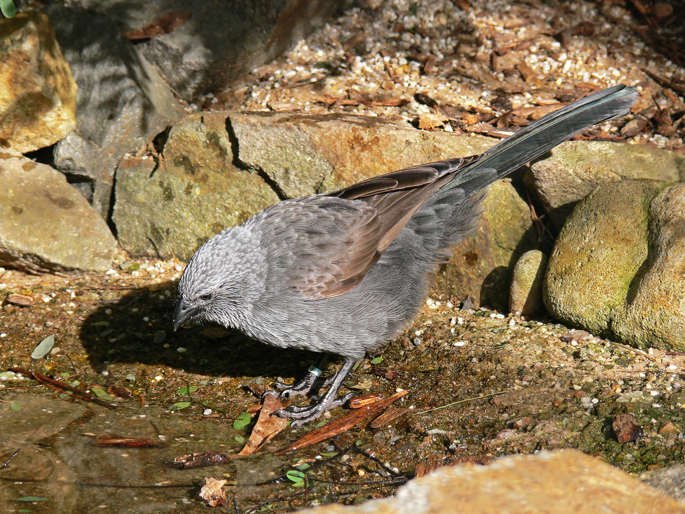 Apostle bird, Struthidea cinerea. Taken in south-eastern Australia